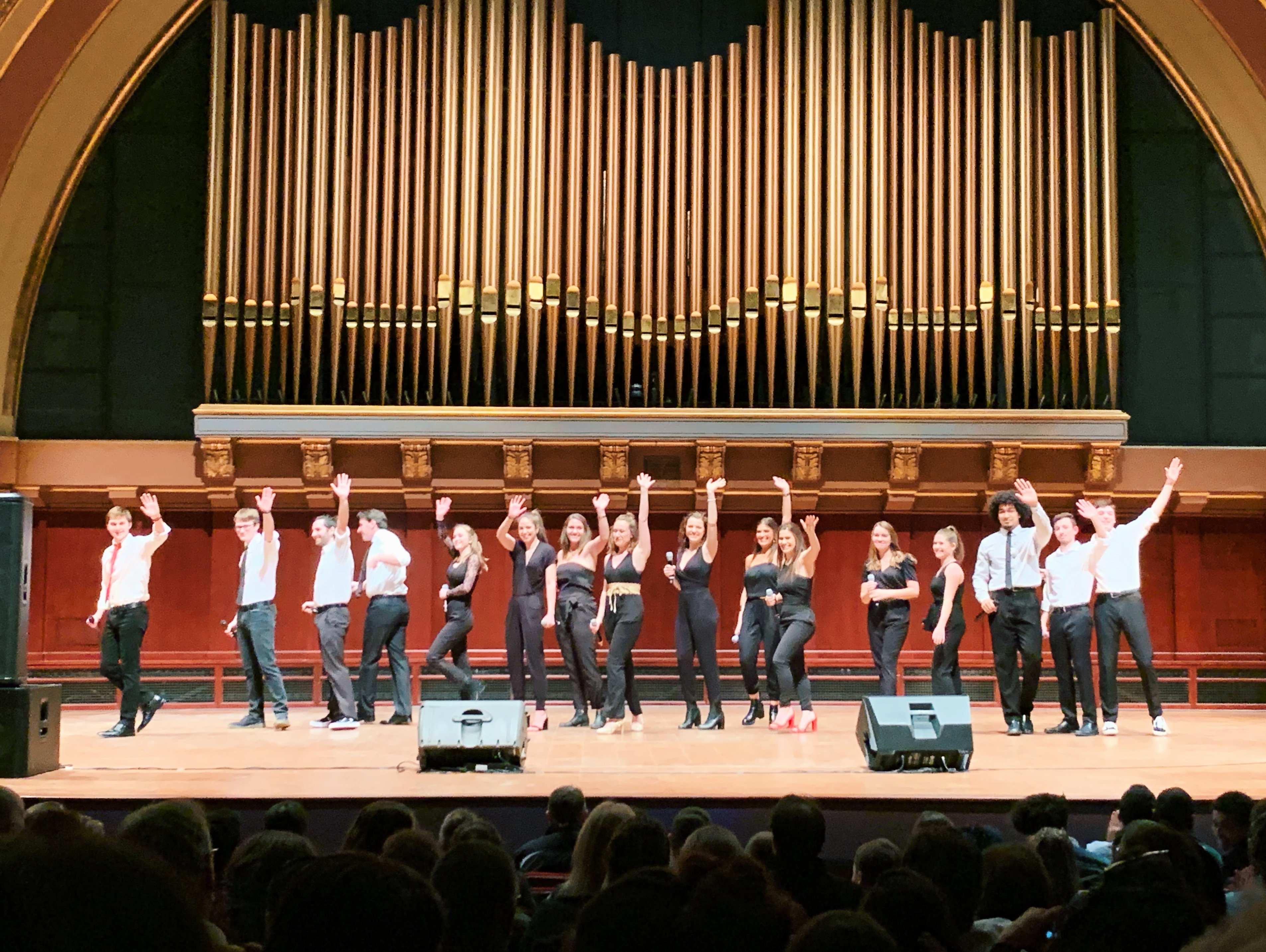 The Compulsive Lyres after their performance at 2019 ICCA Quarterfinals.